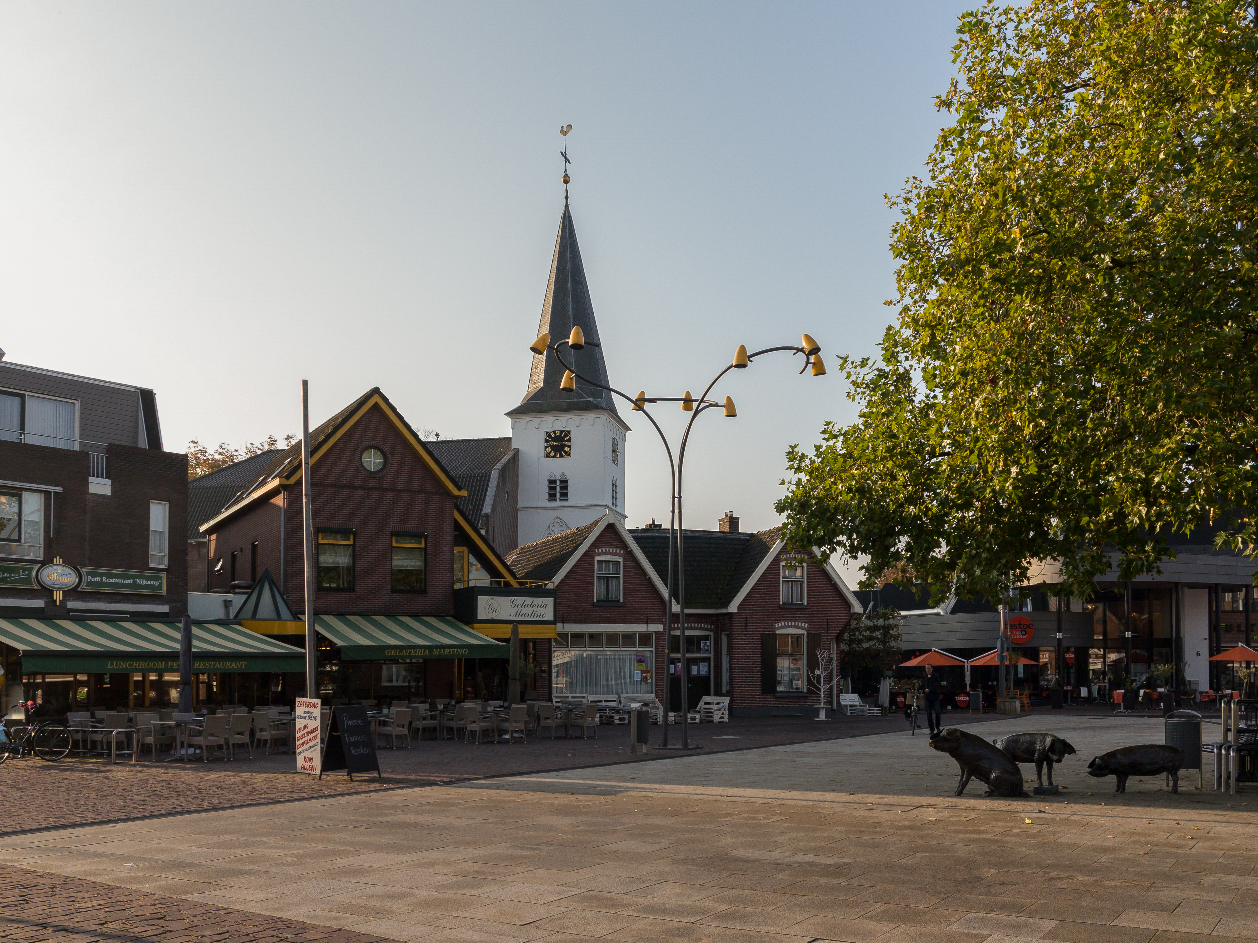 Holten, churchtower Dorpskerk